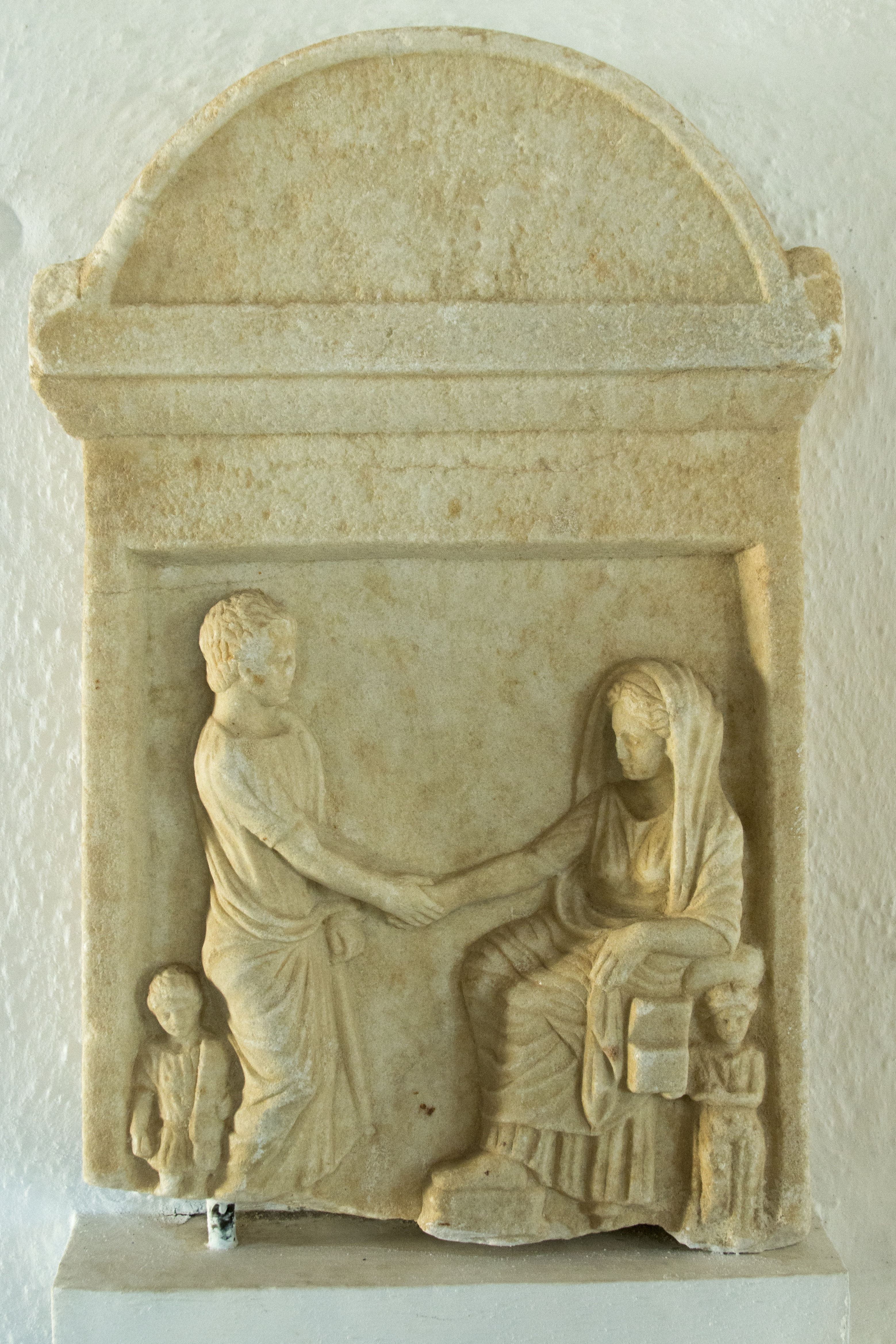 Marble funerary stele with pediment. "Parting scene" in relief. Late Hellenistic. From the Kastro of Sifnos. Archaeological Museum of Sifnos (in Kastro).